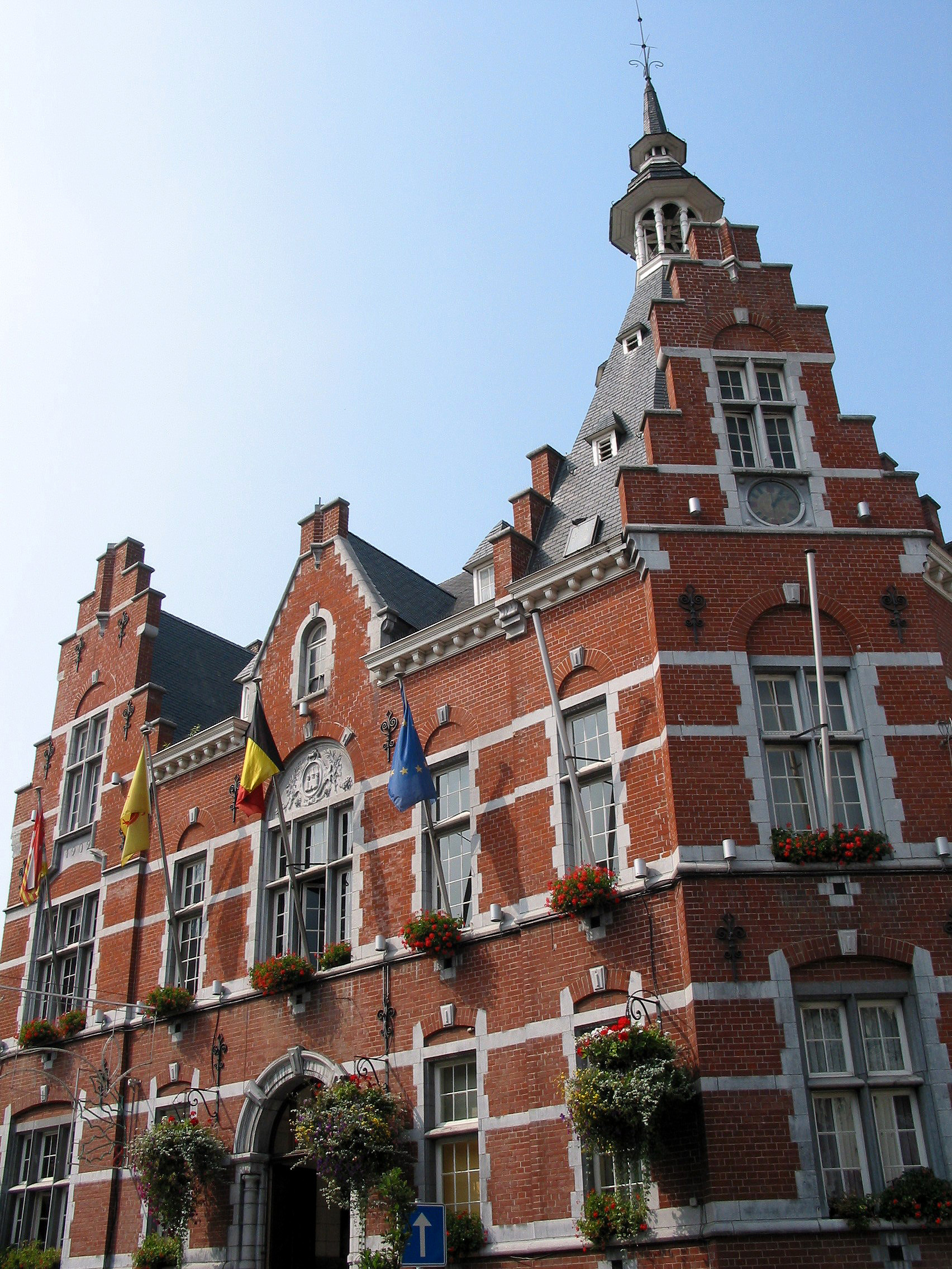 Waremme (Belgium), the town hall (1901 - architect: Bricteux).